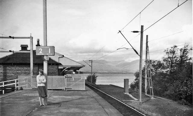 Balloch Pier Station. View northward to Loch Lomond - with Evelyn Brooksbank not altogether warm. Terminus of line from Dumbarton and Glasgow, electrified in 1960; closed from Balloch Central 29/9/86.